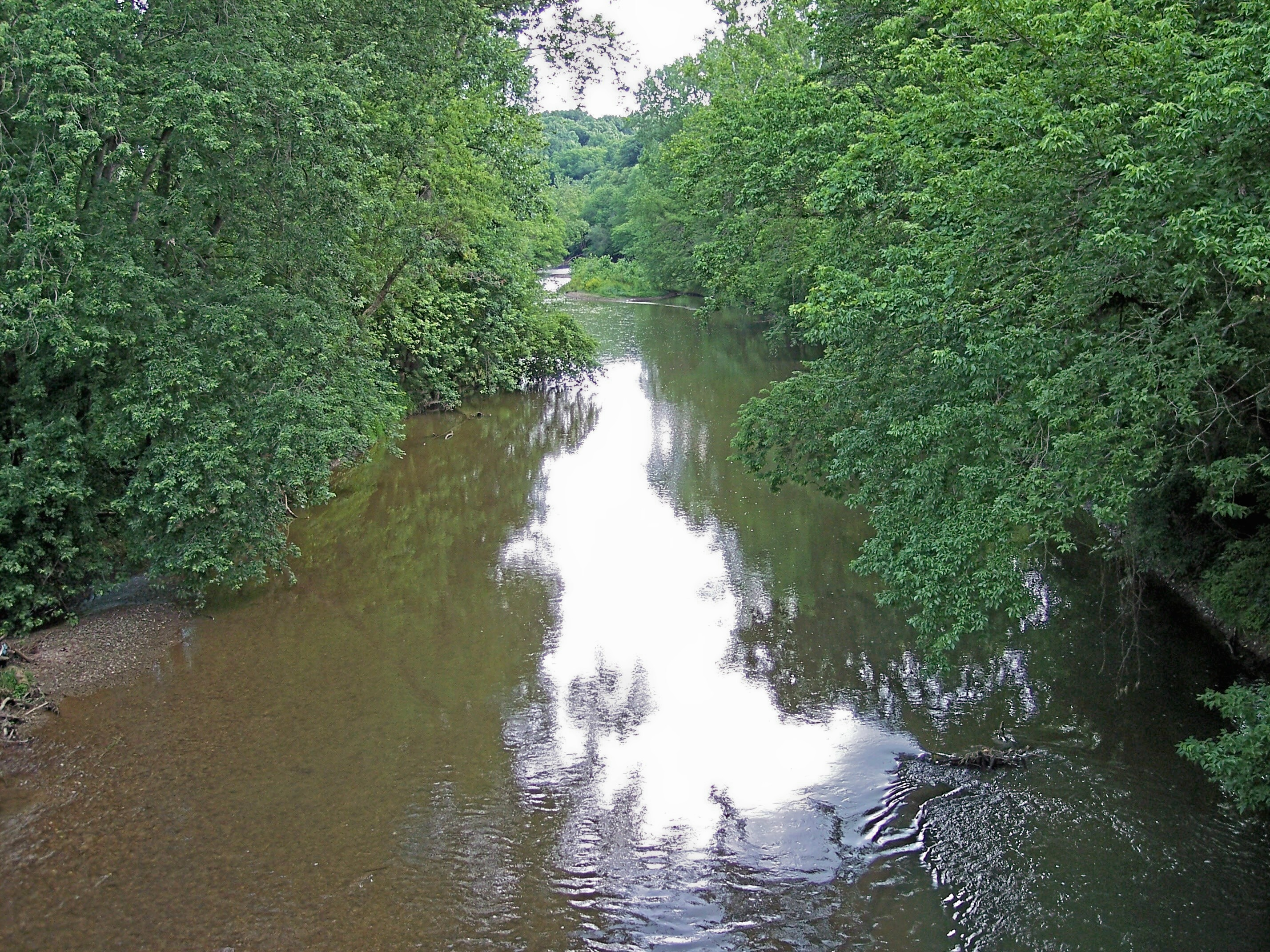 The Kokosing River near Gambier, Ohio, as viewed from the Kokosing Gap Rail trail